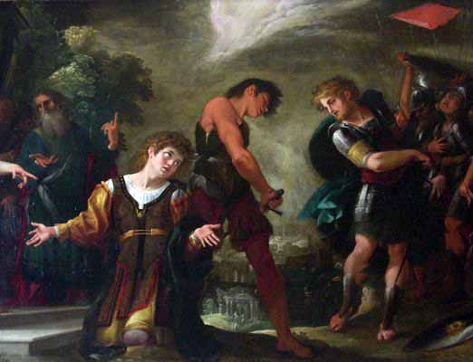 Martyrdom of Saints Hillary, Jason and Maurus, painting at Lucca